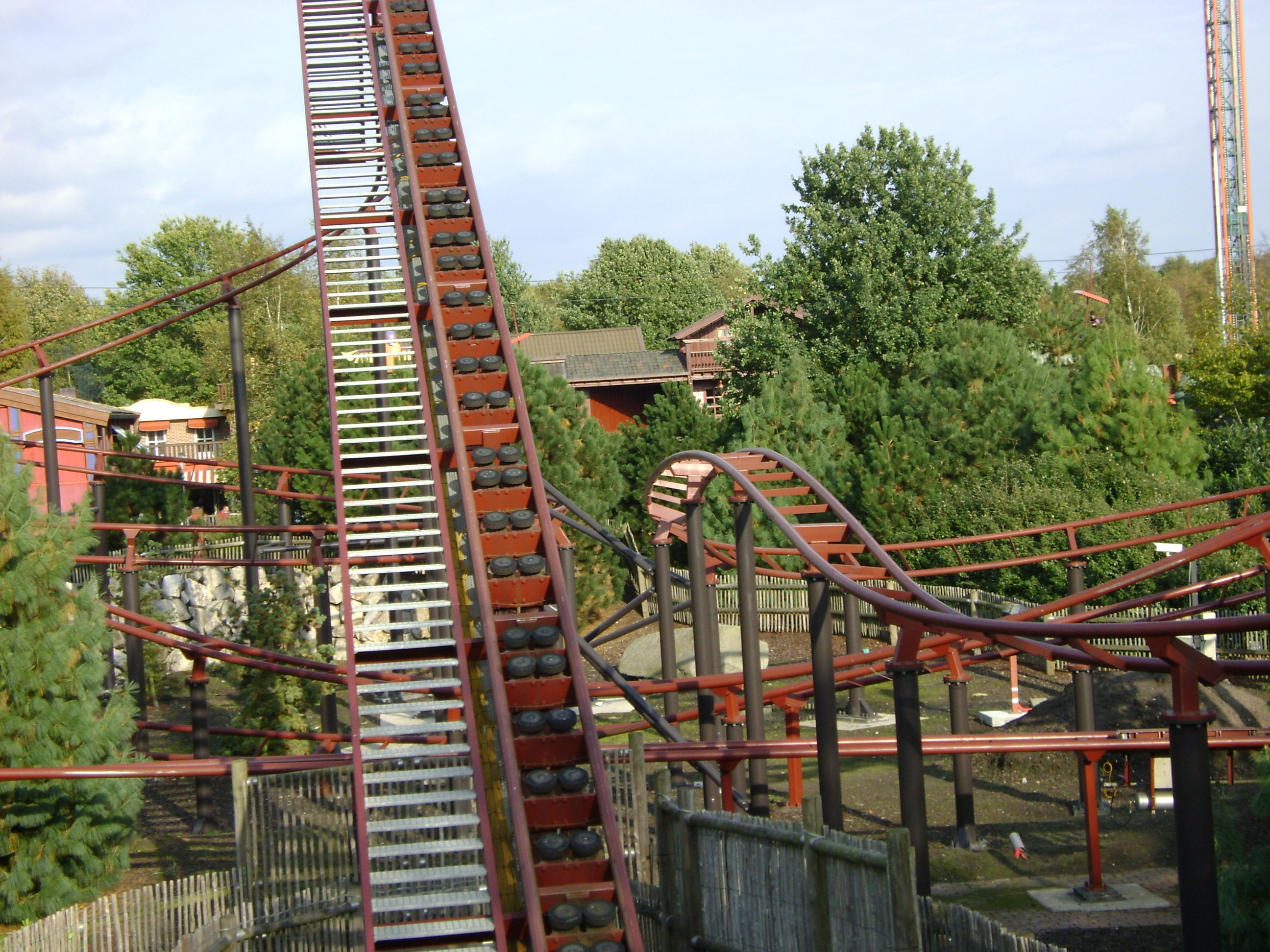 MainTrainSlagharen2